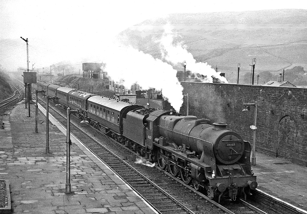 Down WCML express passing Tebay Station. View southward from the station footbridge, towards Lancaster, Preston and the South. Rebuilt 'Royal Scot' 7P 4-6-0 No. 46127 'Old Contemtibles' on the 09.05 Crewe to Perth express is about to tackle the formidable Shap Bank (5½ miles, mostly at 1-in-75). Behind the wall on the Down side is the Locomotive Depot, which housed the banking engines needed for freight trains, if not for this express. The hills (1,250 - 1,350 ft.) behind and across the Lune Valley are Jeffrey's Mount and Grayrigg Common - and of course it's raining! Tebay station was closed on 1/7/68.